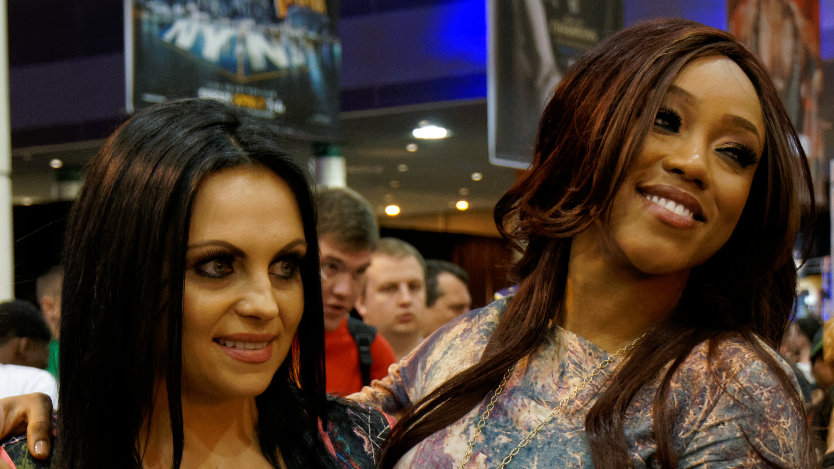 Foxsana at WrestleMania Axxess in April 2014. Aksana (Živilė Raudonienė) on the left and Alicia Fox (Victoria Crawford) on the right.